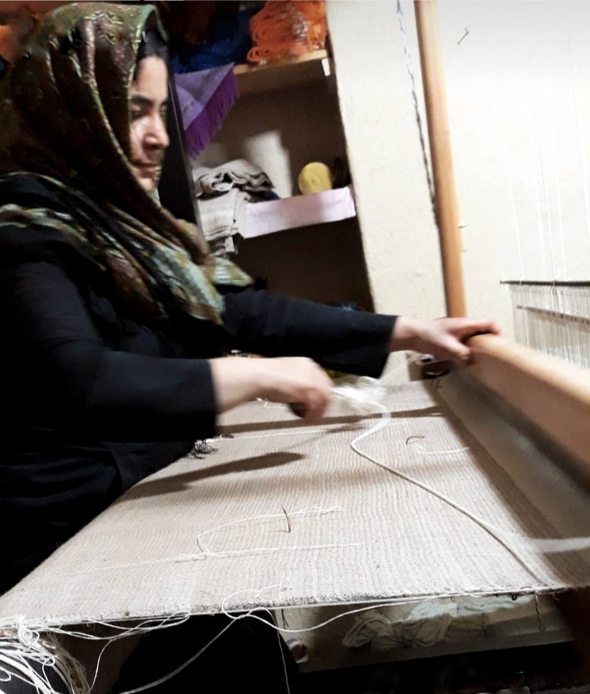 An Iranian woman living in Kalate Khij, making traditional broadcloth.